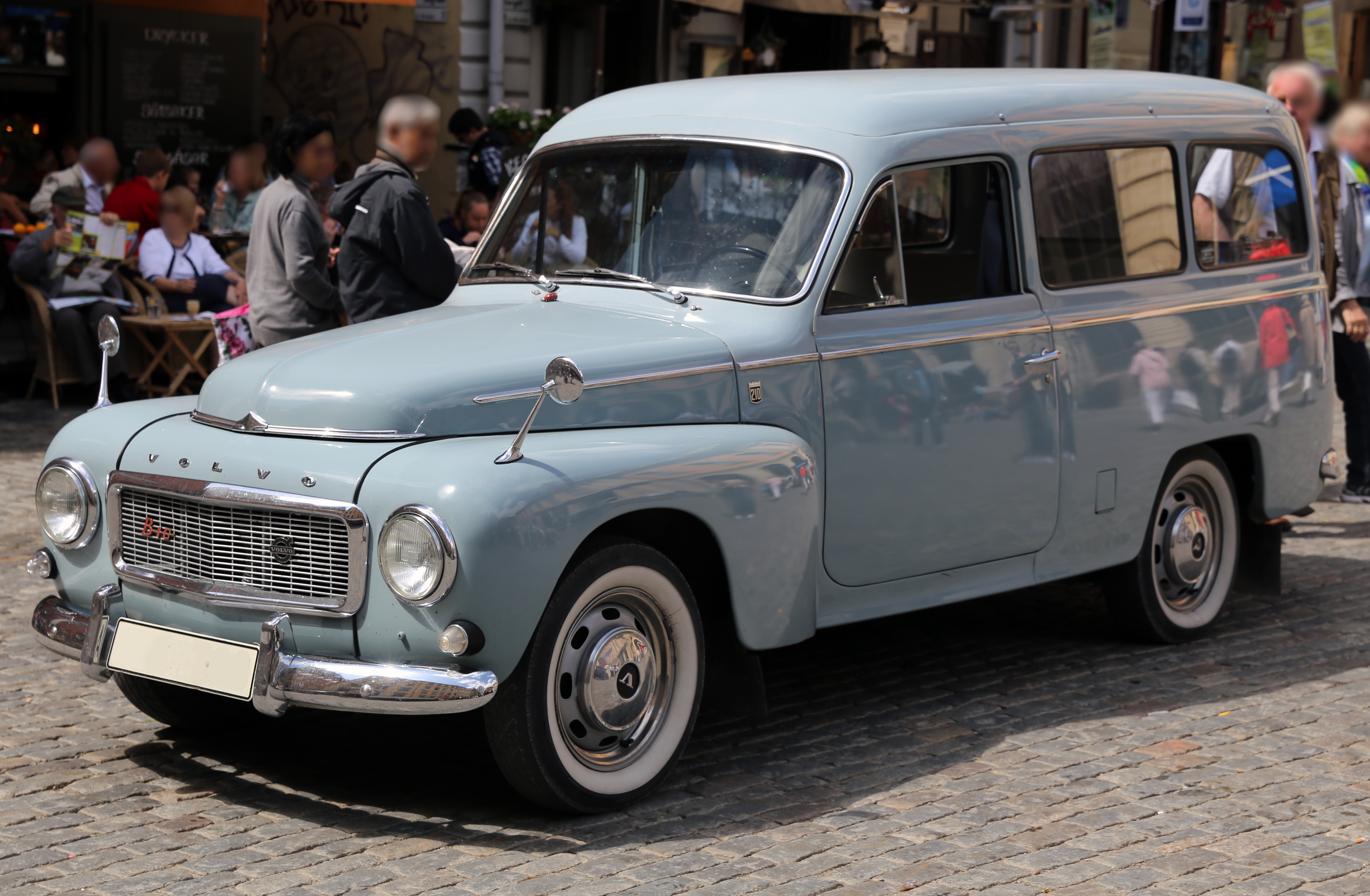 1965 Volvo P210 ("Duett"), model code 21134 E. In Stockholm's Gamla Stan.